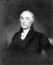 From the U.S. Senate historical office